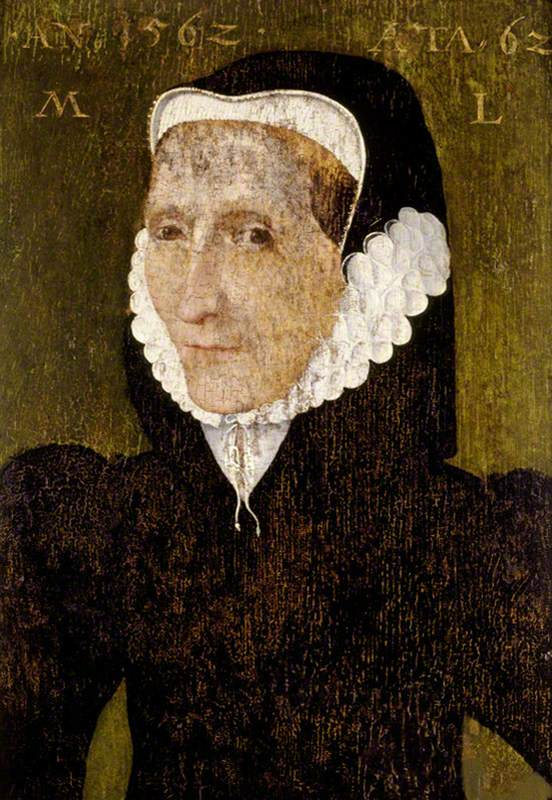 1562 Portrait of Margaret Wyndham (1500-1580)[1] aged 62, oil on panel, property of National Trust, collection of Dunster Castle, Somerset. She was a daughter of Sir Thomas Wyndham (d.1521) of Felbrigg Hall in Norfolk, and was the wife of Sir Andrew Luttrell (1484–1538), of Dunster Castle, Sheriff of Somerset and Dorset in 1528, whose monument exists in East Quantoxhead Church. Inscribed in Latin: AN(NO) 1562 AETA(TIS SUAE) 62 M(ARGARET) L(UTTRELL). Provenance: donated in 1981 by Lieutenant-Colonel Geoffrey Walter Fownes Luttrell of Dunster Castle.